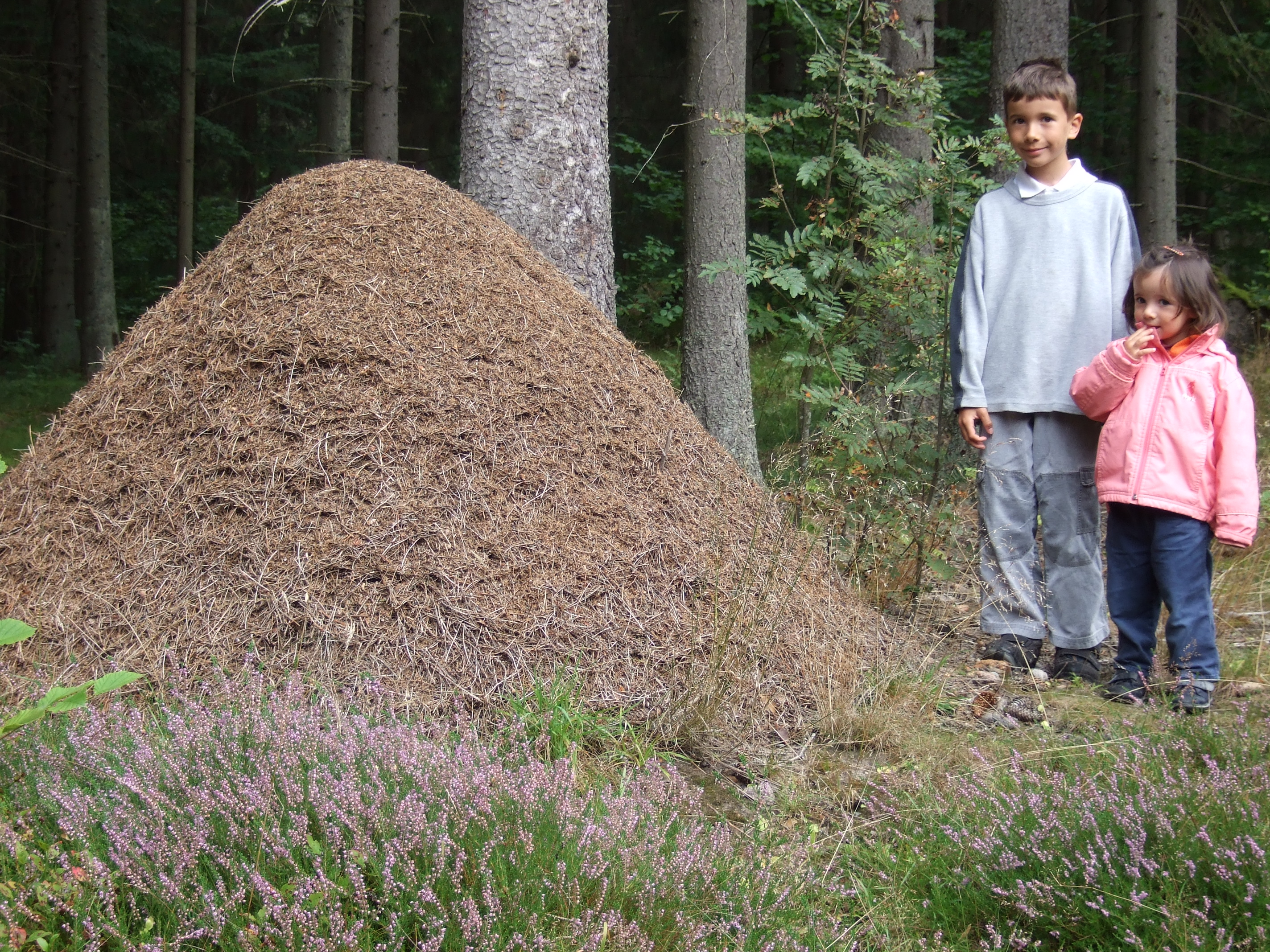 A formidable formicary near Lake Vixen, Sweden